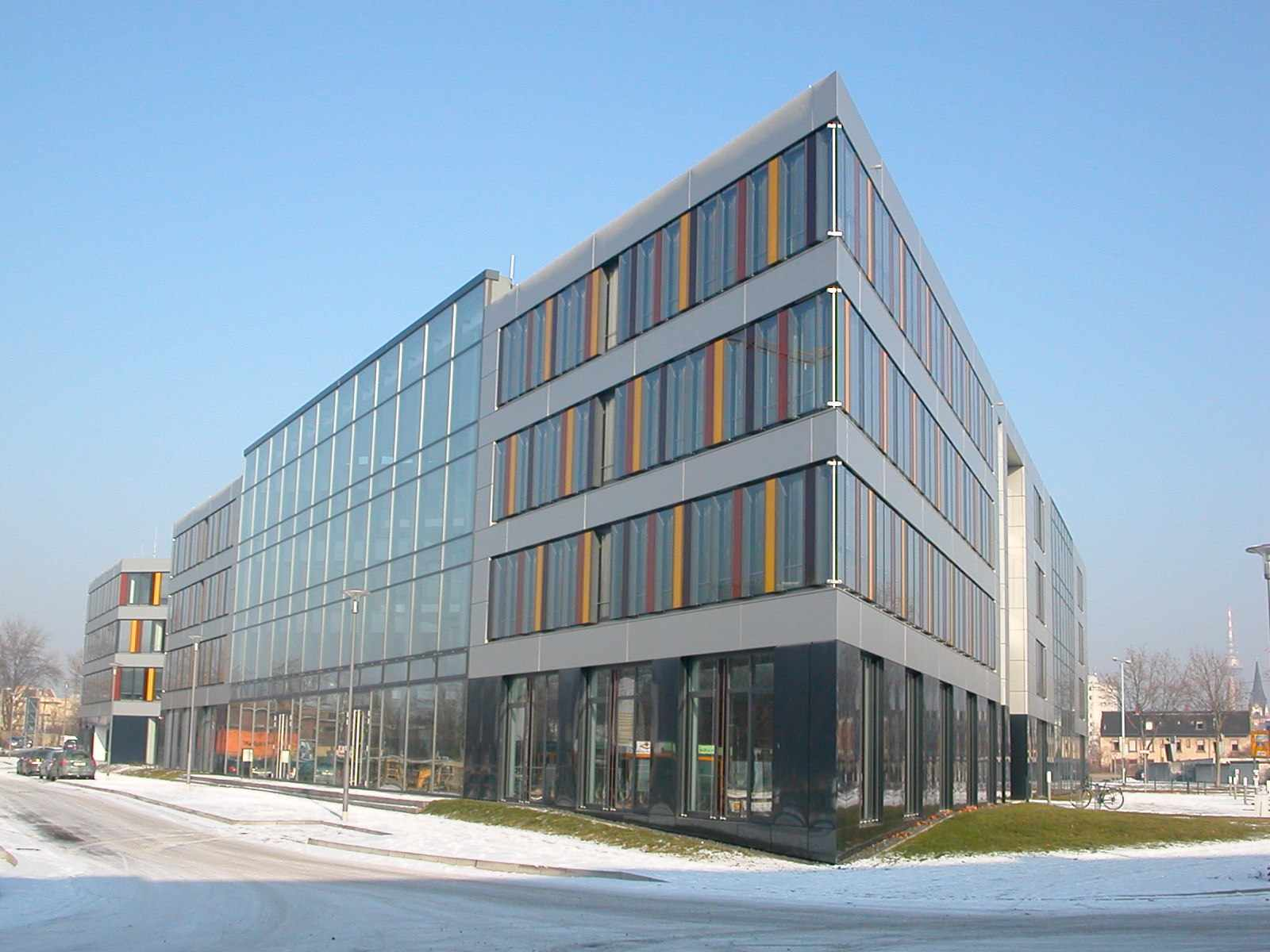 Mannheim - MAFINEX technology center at Mannheim 21